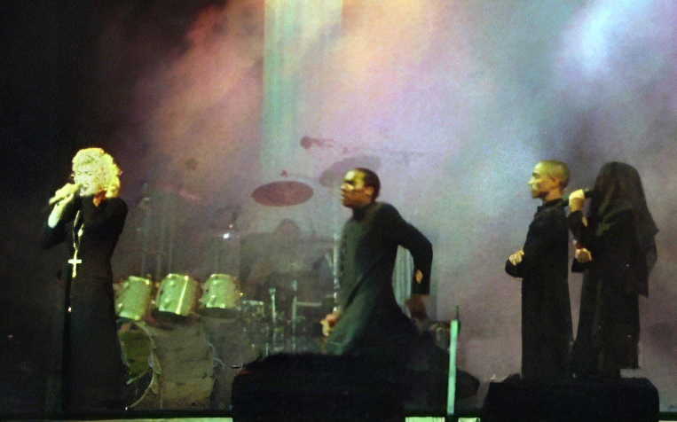 Photo taken by a fan during one of the 1990 cxxxxxxxconcerts